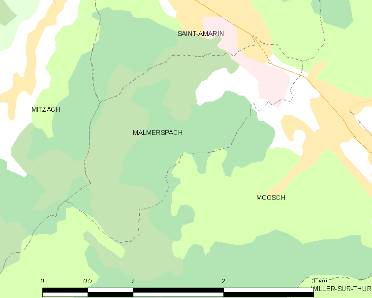 Map of French municipality